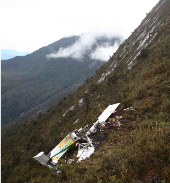 Crash site of Mimika Air